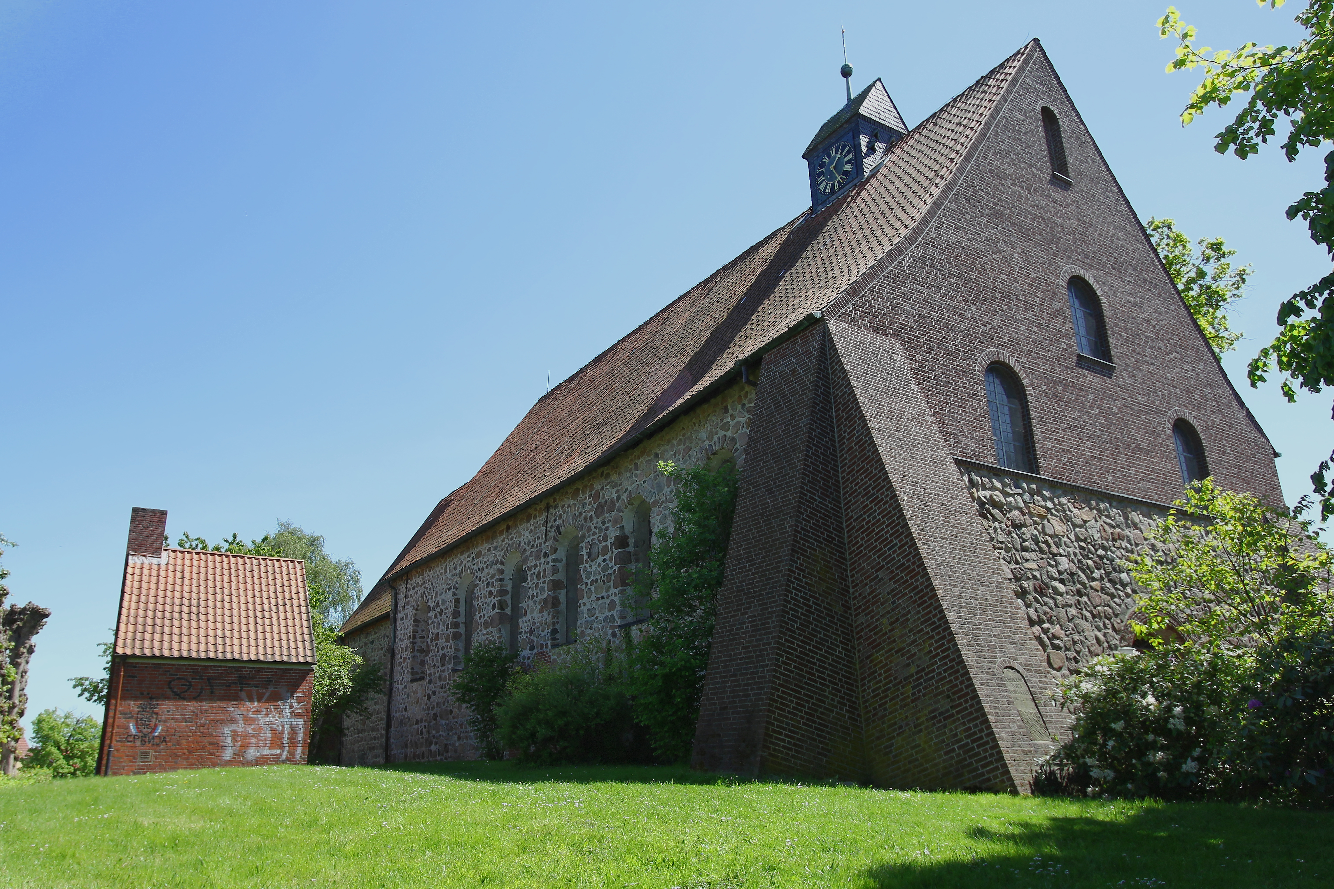 Hittfeld, church St. Mauritius